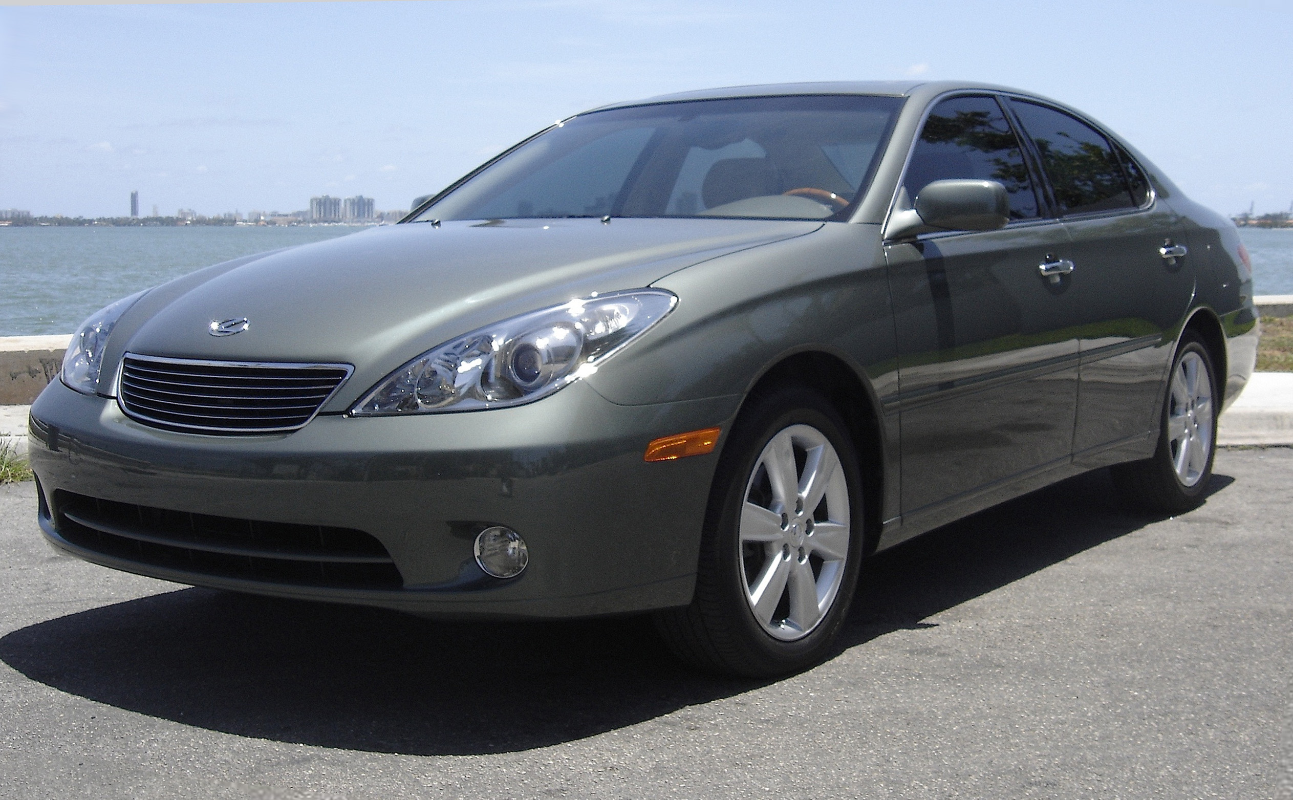 2006 Lexus ES. Photo by DonIncognito in front of Biscayne Bay, Miami, FL. Modified photo.